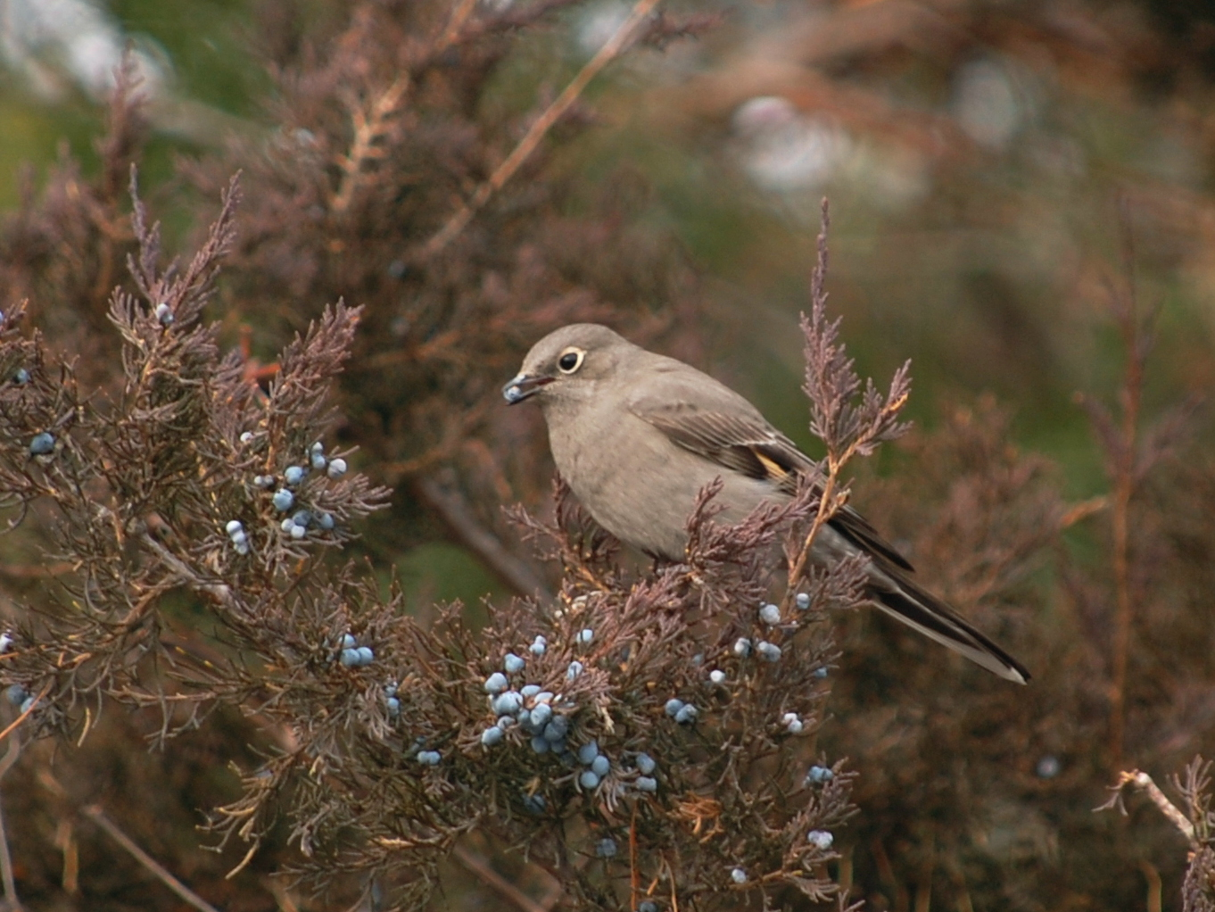 Closer crop of Townsend's Solitaire Myadestes townsendi at Lake Vadnais, Minnesota, USA